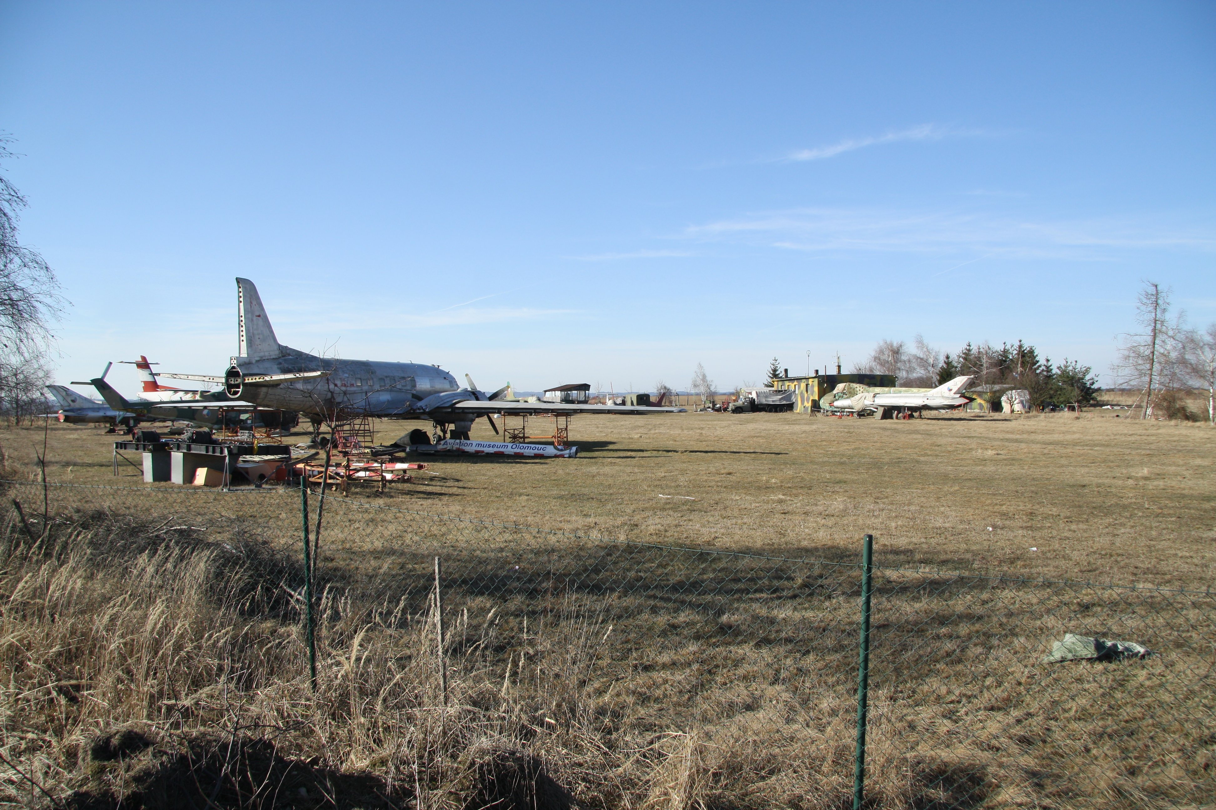 Overview of Letecké muzeum Koněšín in Koněšín, Třebíč District.